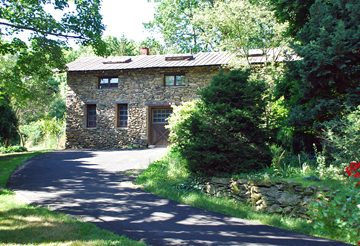 Stone Carriage House with Gardener's Appartment